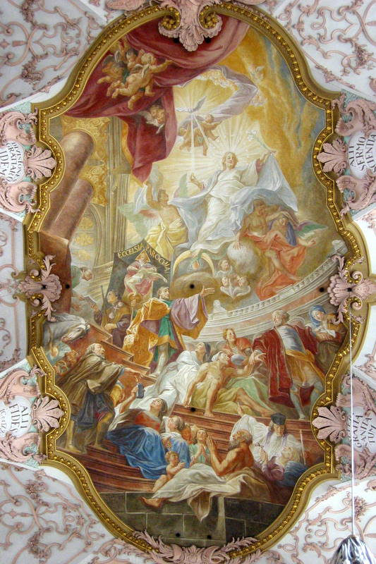 Munich, Deckenfresko Heiliggeistkirche